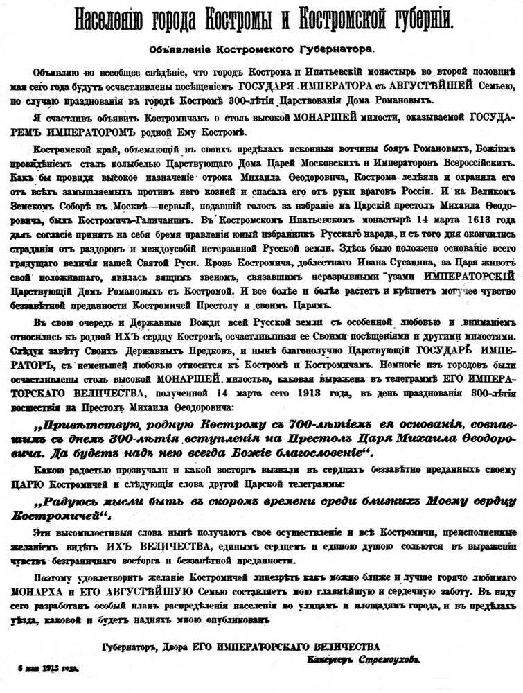 Emperor-nicholas-ii-in-kostroma-1913-7ea0d6